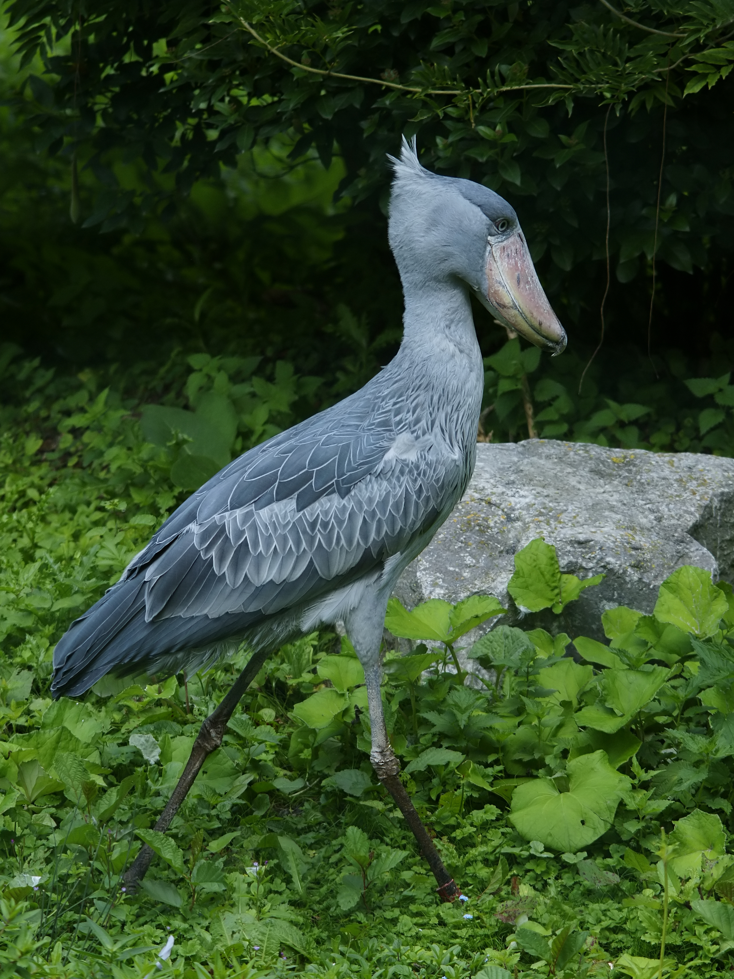 Shoebill, at Pairi Daiza, Brugelette, Belgium